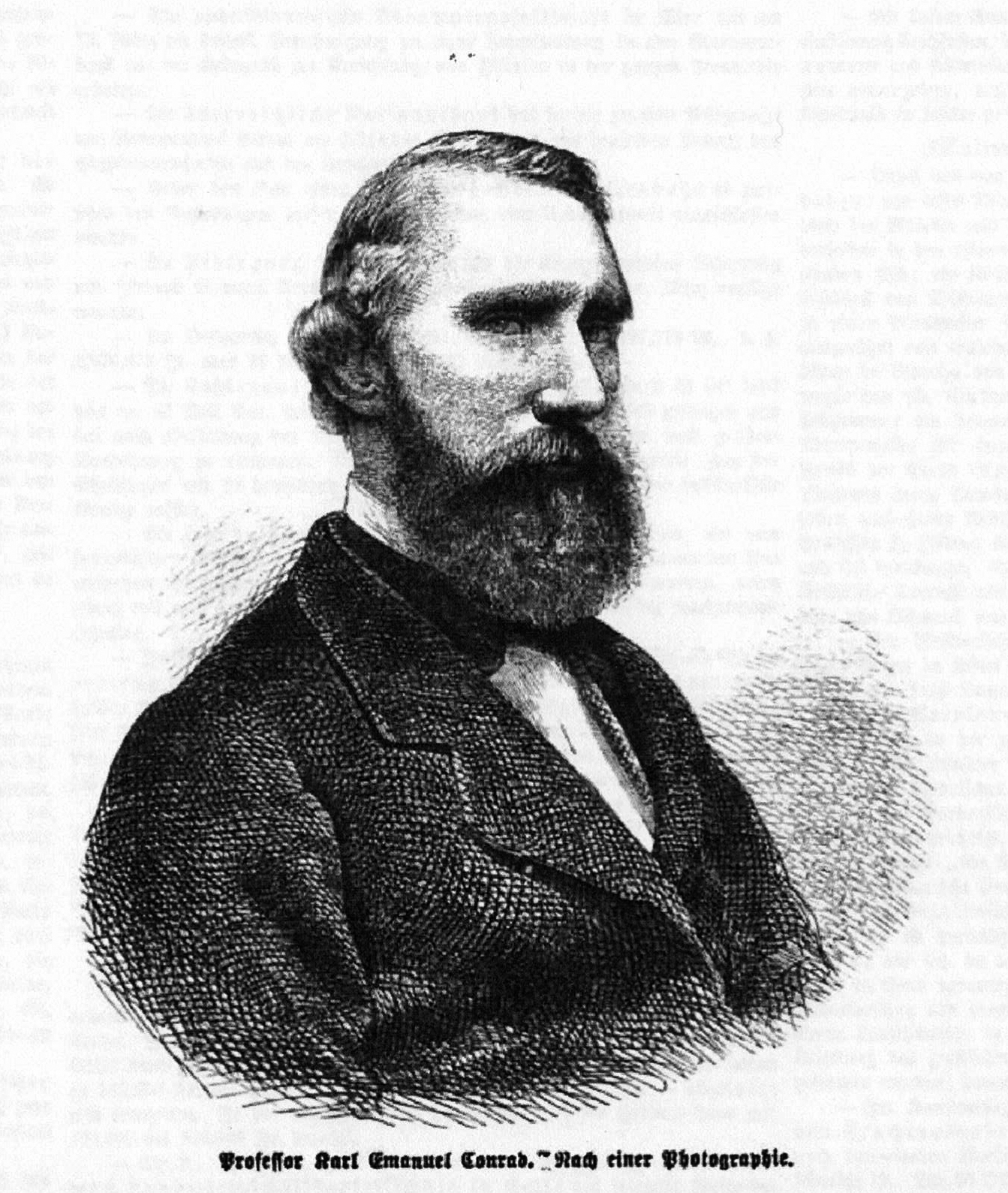 Carl Emanuel Conrad. Woodcut, Leipziger Illustrierte Zeitung, Vol. 1082, 1864-03-26